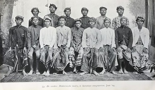 Rouffaer, G.P. et al.: De Zuidwest Nieuw-Guinea-Expeditie, 1904-5, Kon. Ned. Aardrijkskundig Genootschap, Leiden E. J. Brill, 1908 - 73. The older Madurese coolies, recruited in Surabaya, June '04.